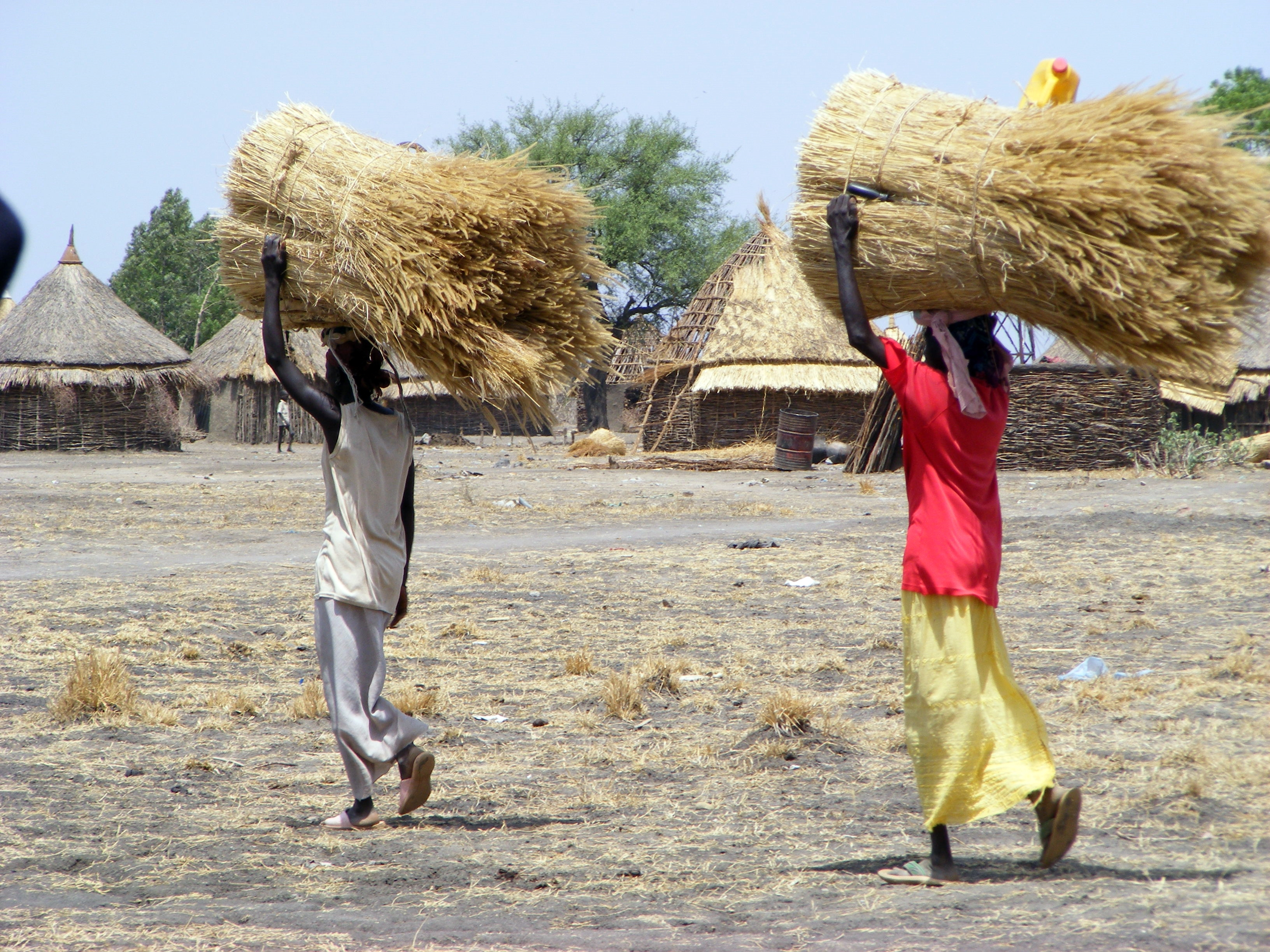 This is an image with the theme "Africa on the Move or Transport" from: Ethiopia